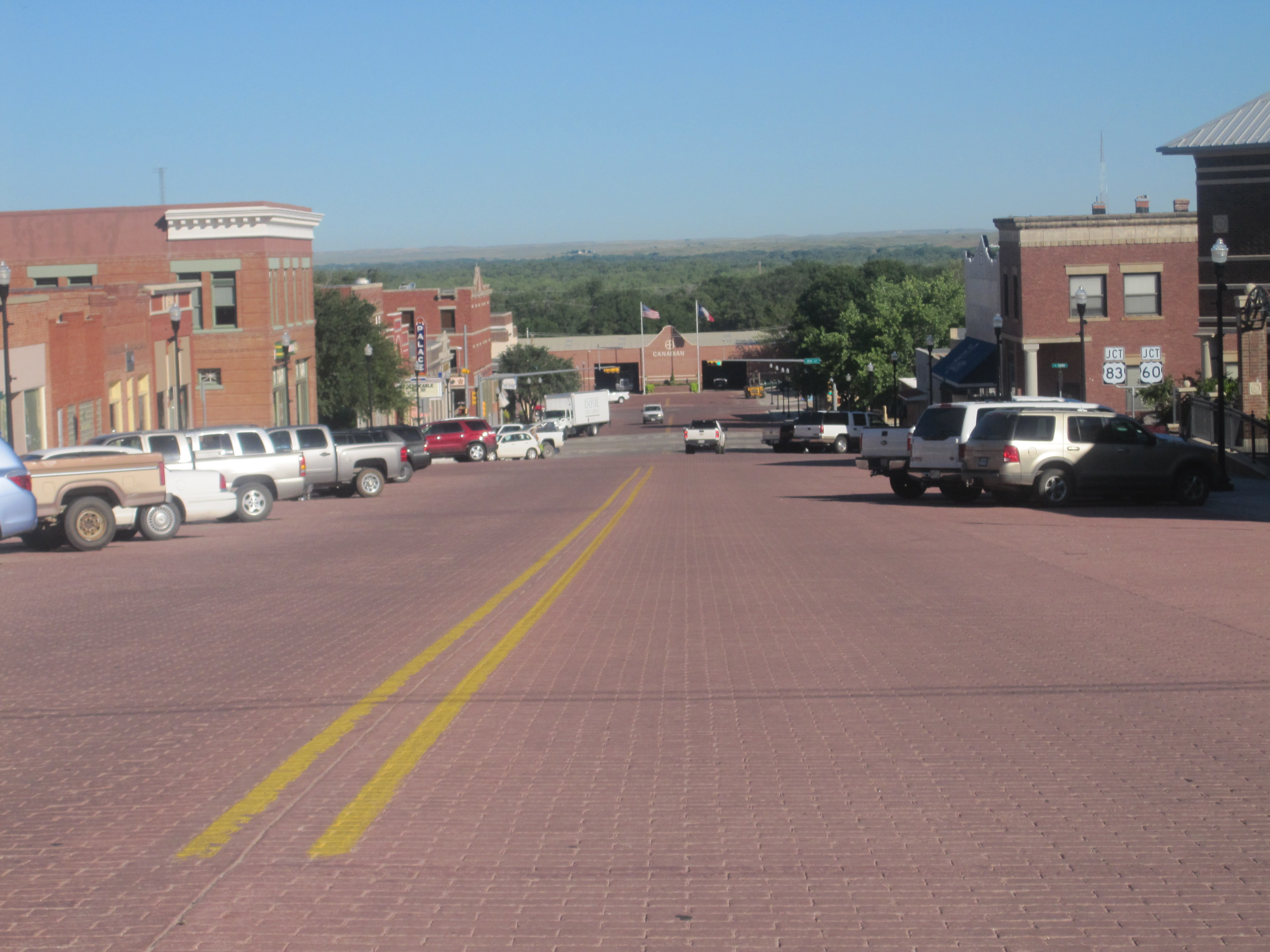 I took photo with Canon camera in Canadian, TX.